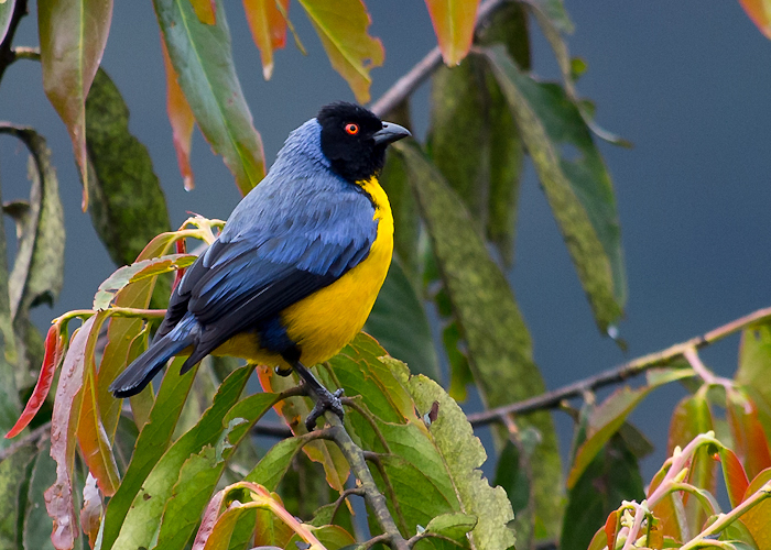 Buthraupis montana Hooded Mountain Tanager, Puno, Peru